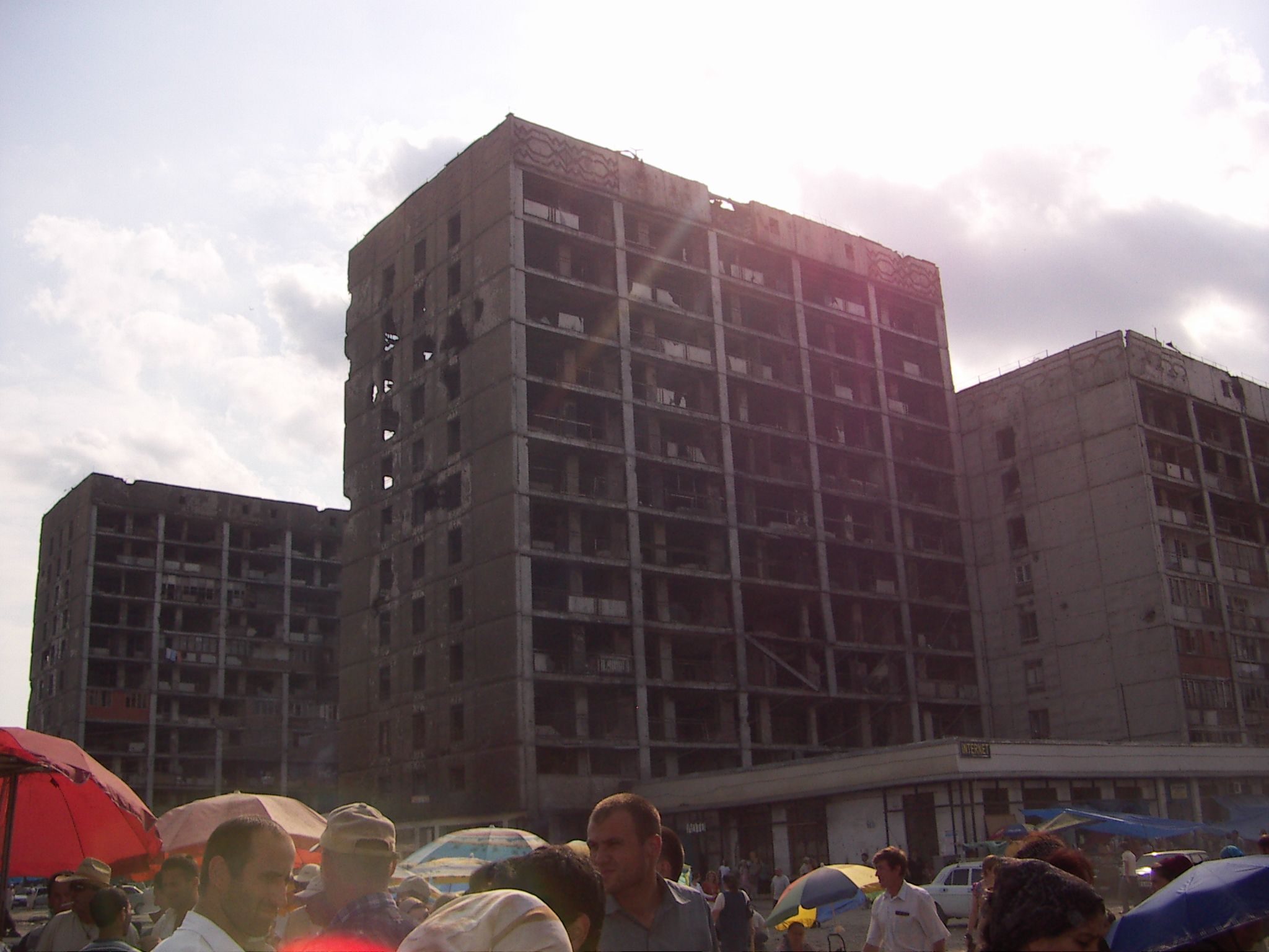 Central Bazaar, Grozny, Russia.